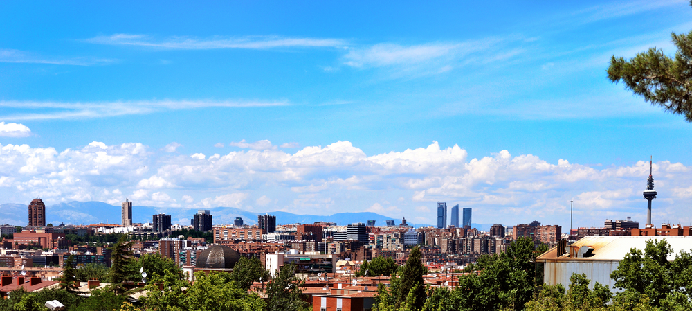 View of Madrid (Spain) from San Diego neighborhood (Puente de Vallecas district).